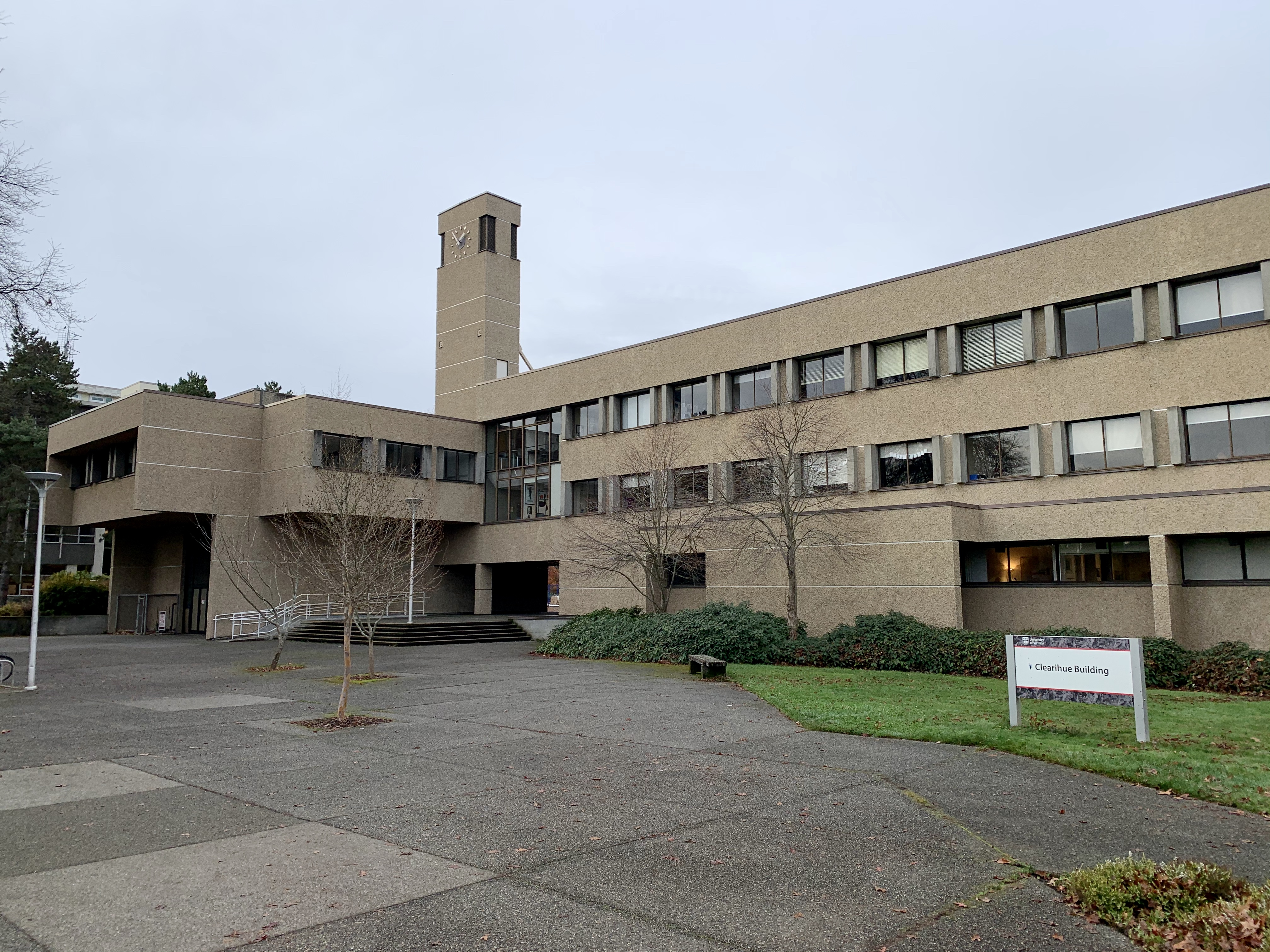 The exterior of the Clearihue building at the University of Victoria.